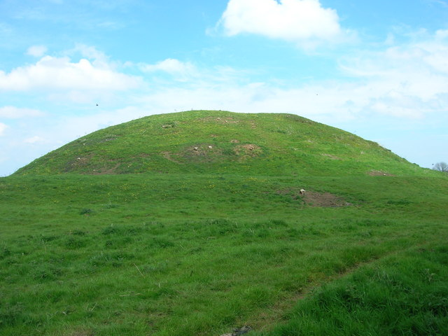 Skipsea Castle, Skipsea Brough, East Riding of Yorkshire, England.Site of an 11th century Norman castle.